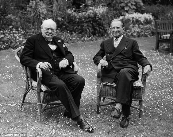 Winston Churchill with Italian Prime minister de Gasperi in 1953